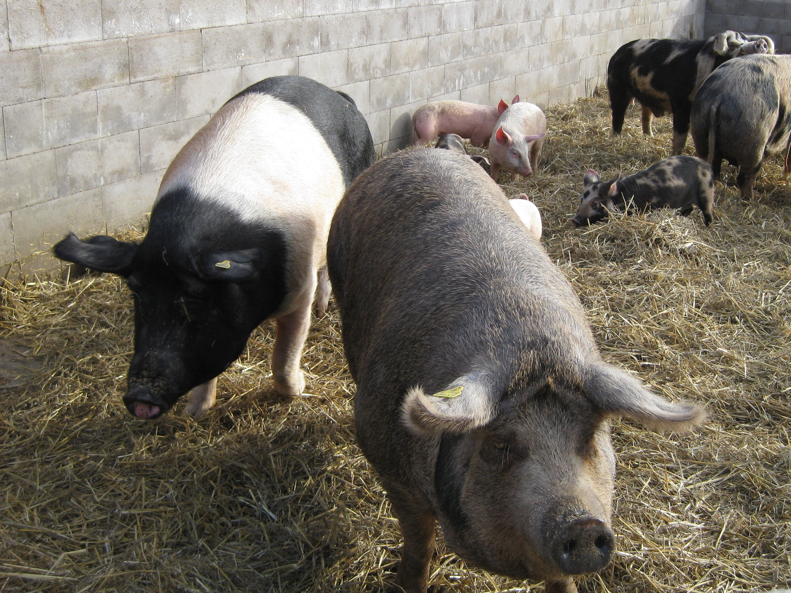 Pigs at Ängavallen farm in Skåne, Sweden